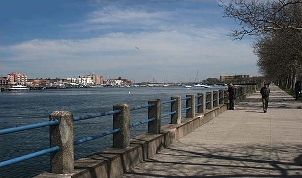 Looking east along the northern esplanade of Manhattan Beach, and along Sheepshead Bay in Brooklyn, NY. This image was made by Robert Swanson Username = ryssby